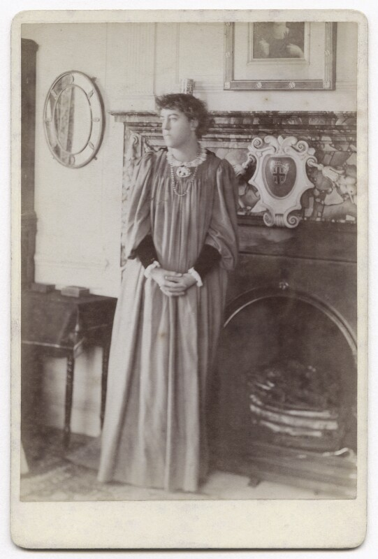 Jane Alice ('Jenny') Morris by Unknown photographer. Albumen cabinet card, May 1898? 5 3/4 in. x 4 in. (146 mm x 102 mm) image size, Given by Wilfrid Jasper Walter Blunt, 1972. National Portrait Gallery Photographs Collection, NPG x3742